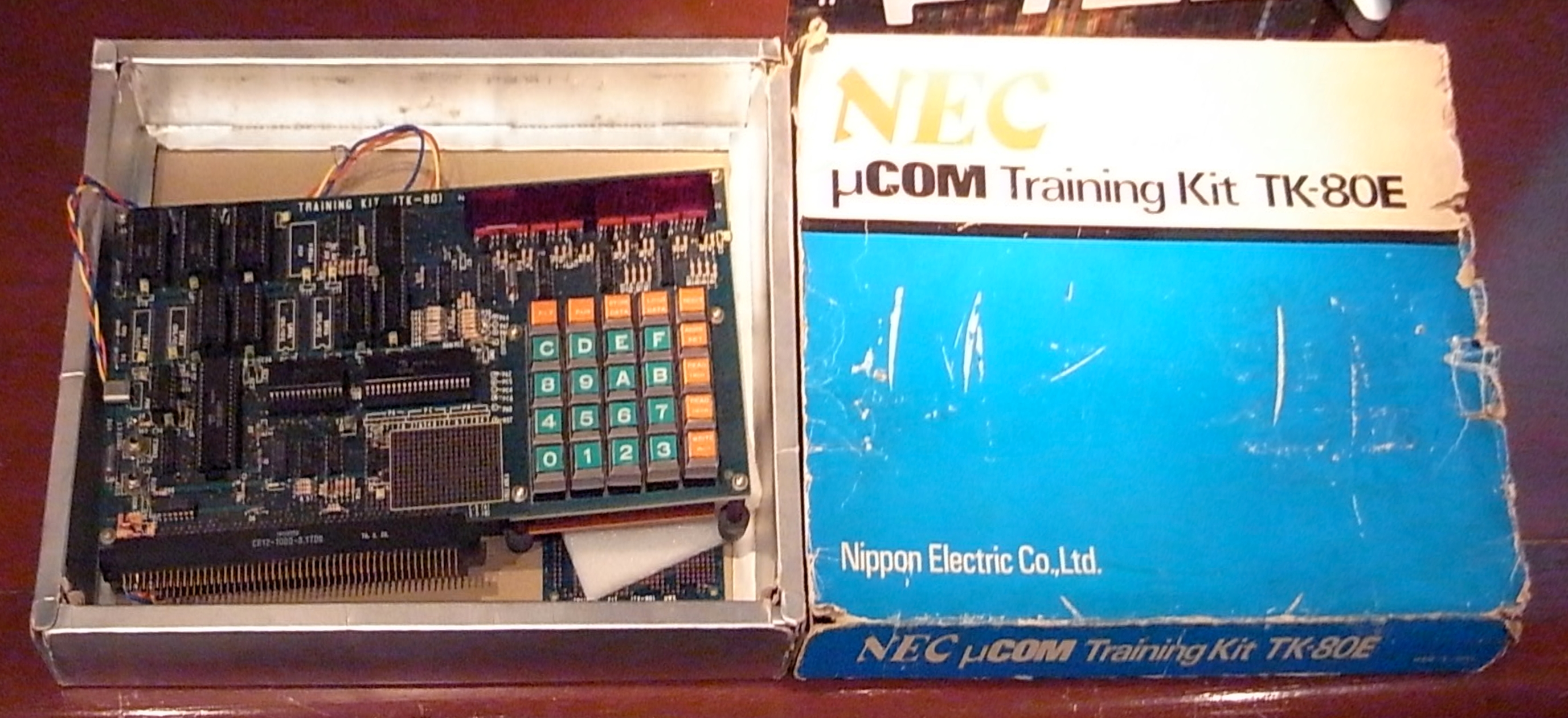 NEC μCOM Training Kit TK-80E